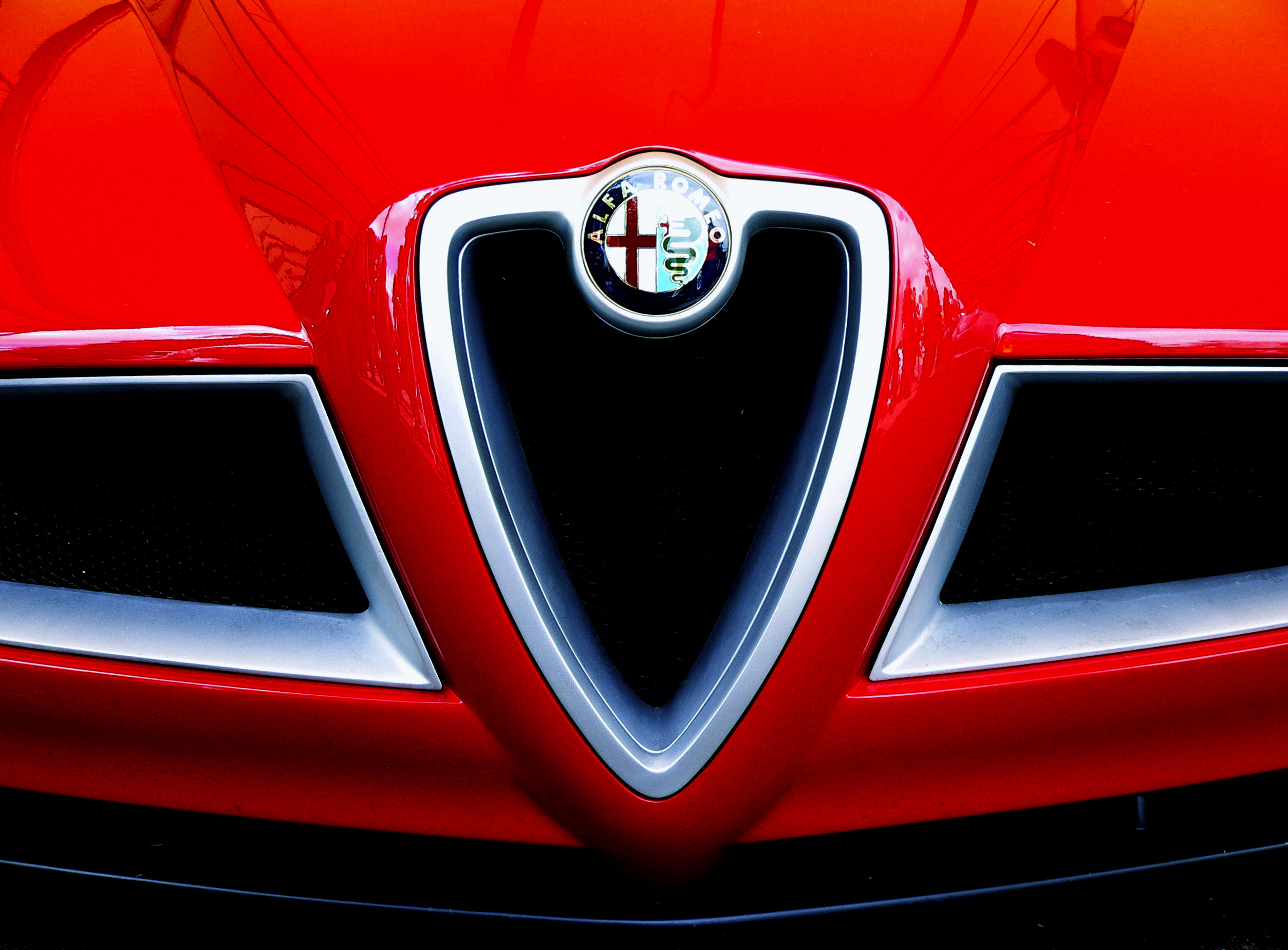 come on Alfa. Just make it already.